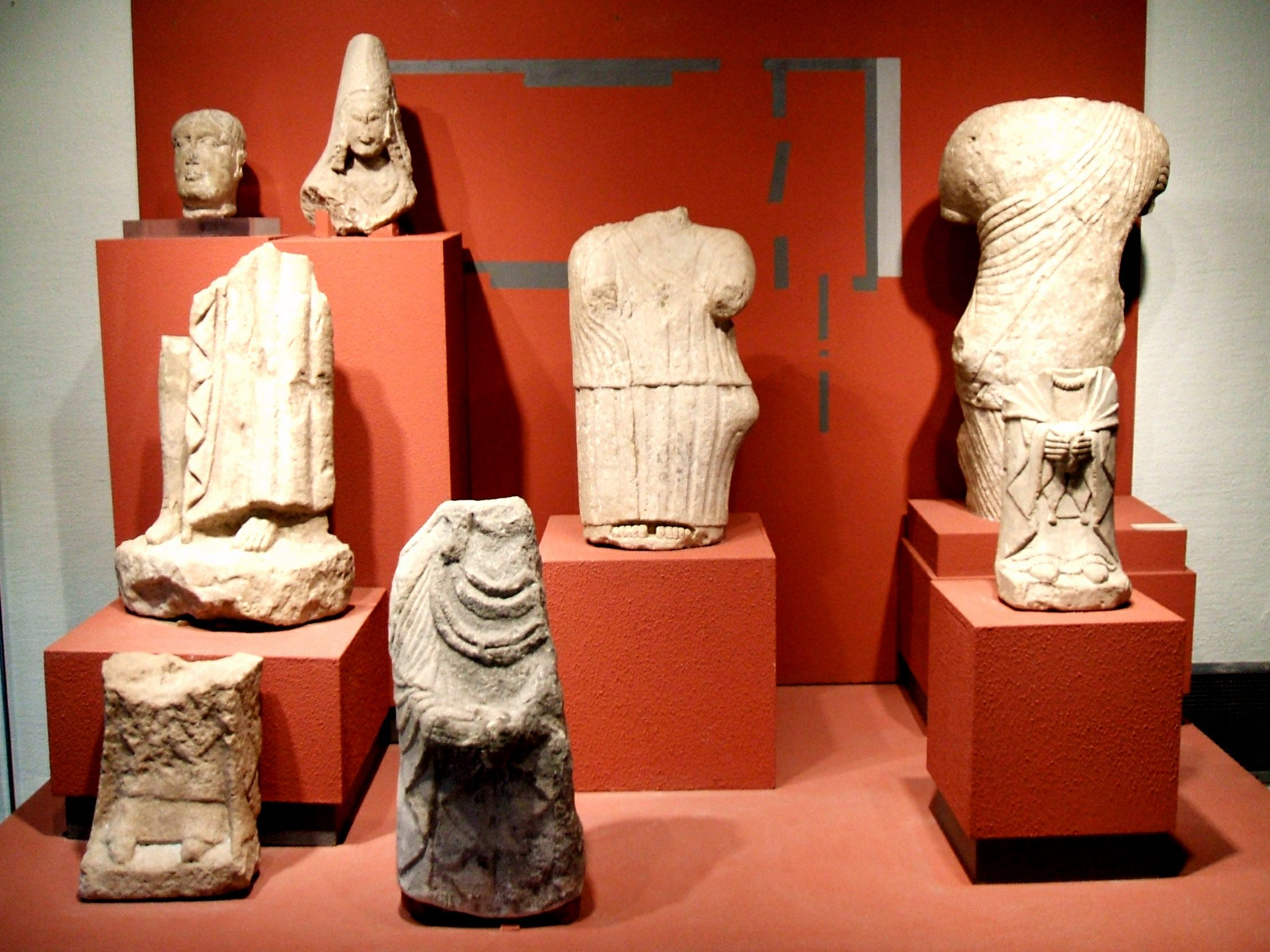 Estatuaria ibera en el Museo Provincial de Albacete